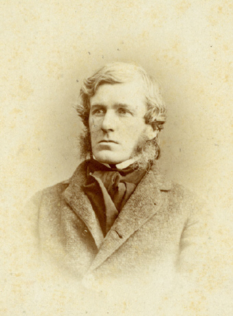 posed portrait of Elkanah Billings from Canada